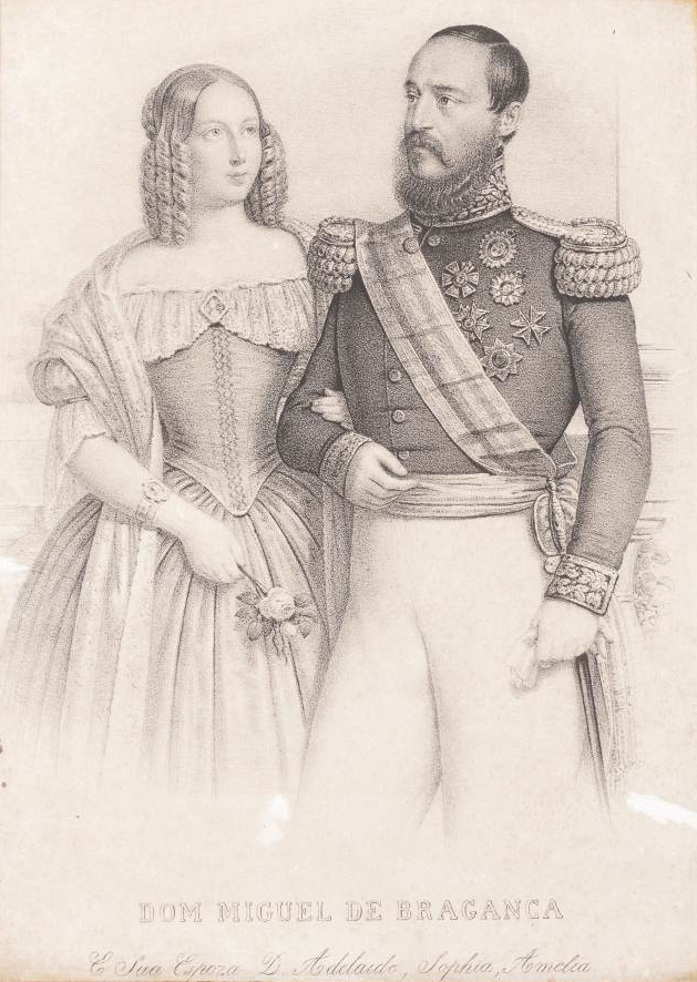 Miguel of Braganza and his wife, Adelaide of Löwenstein-Wertheim-Rosenberg, in a 19th-century engraving.